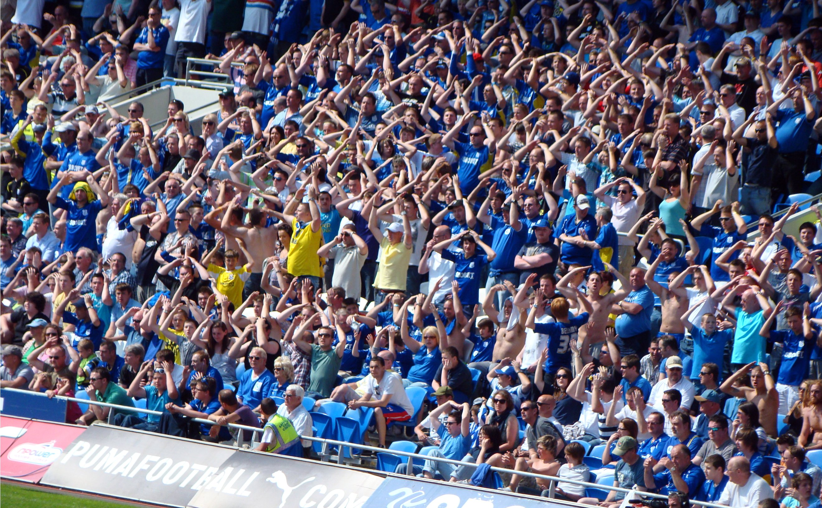 23/04/11 Cardiff V QPR, Championship, Cardiff City Stadium, Cardiff, Wales